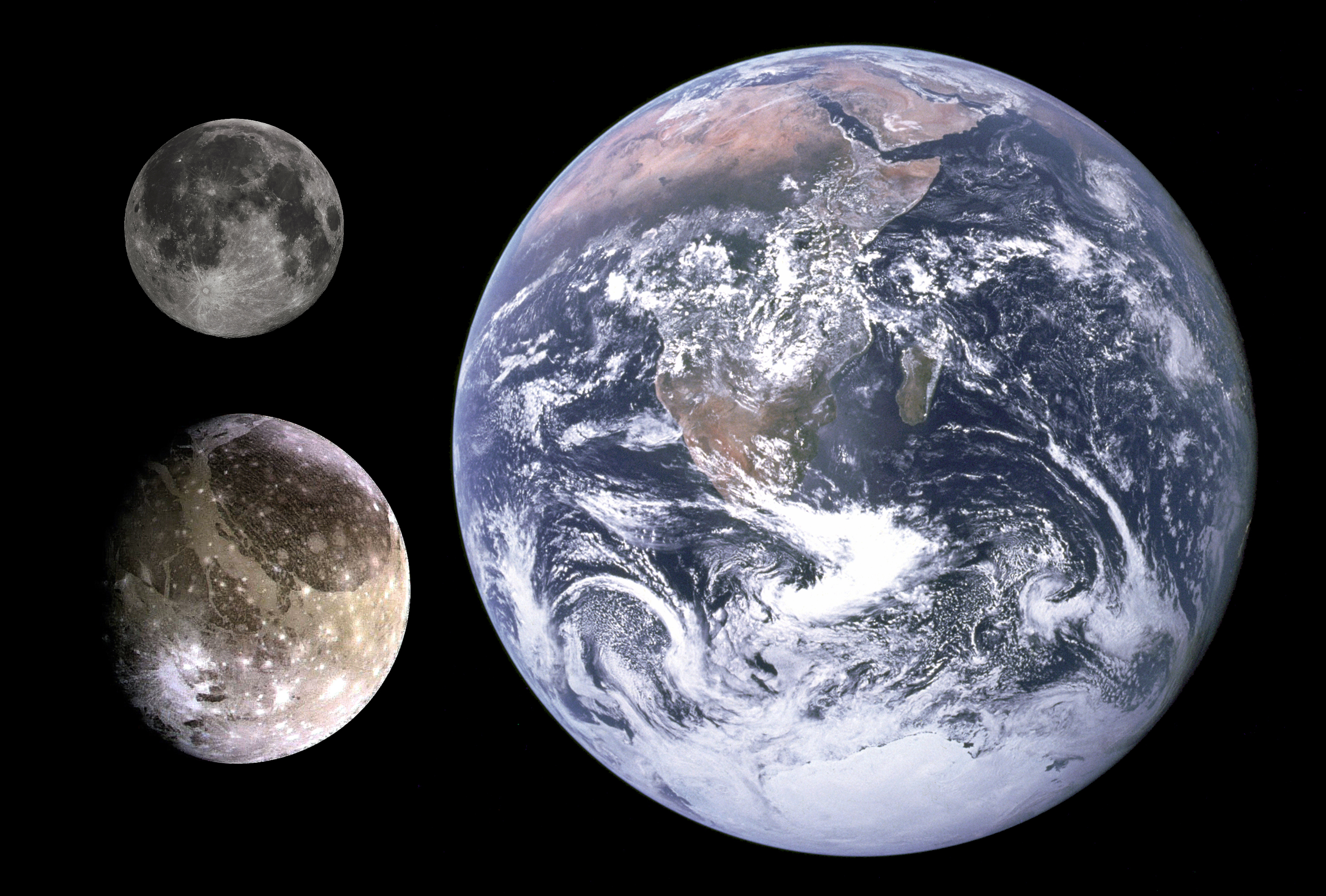 Diameter comparison of Ganymede, Moon, and Earth. Scale: Approximately 29km per pixel.